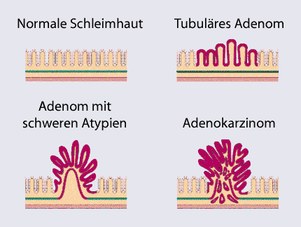 Adenoma- Creator: Doktor silke